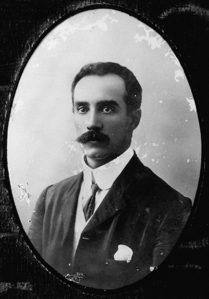 Portrait of Thomas Arthur Price 1871-1957